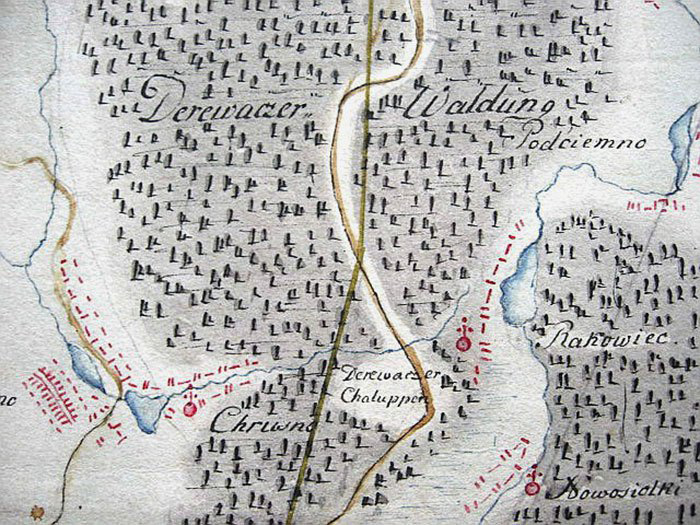 A fragment of the map. XVIII cent.